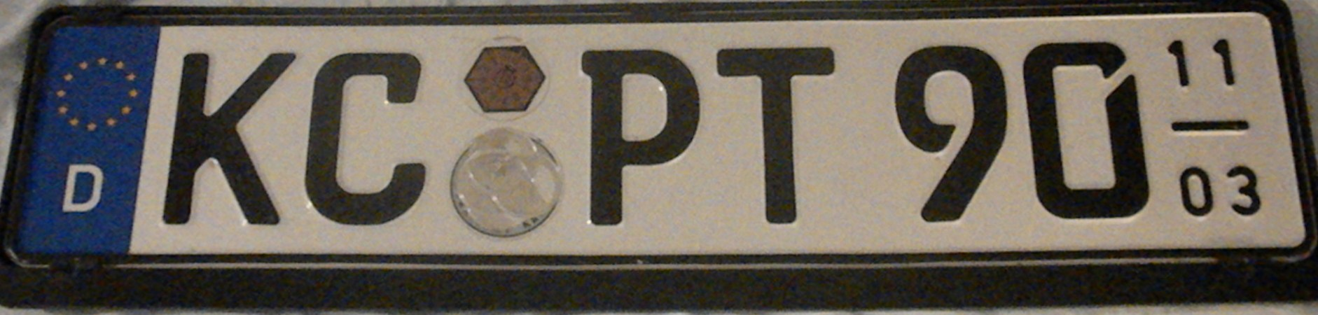 Defaced German plate from Kronarch